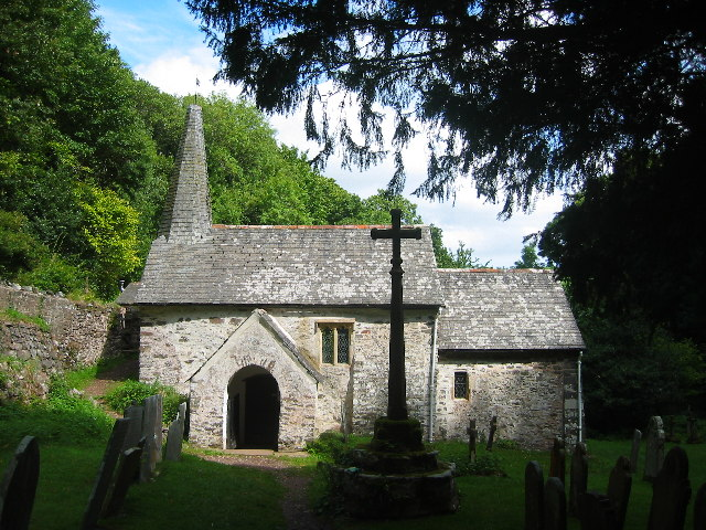 Culbone Church The smallest complete medieval English church in frequent use (10.7m x 3.7m).